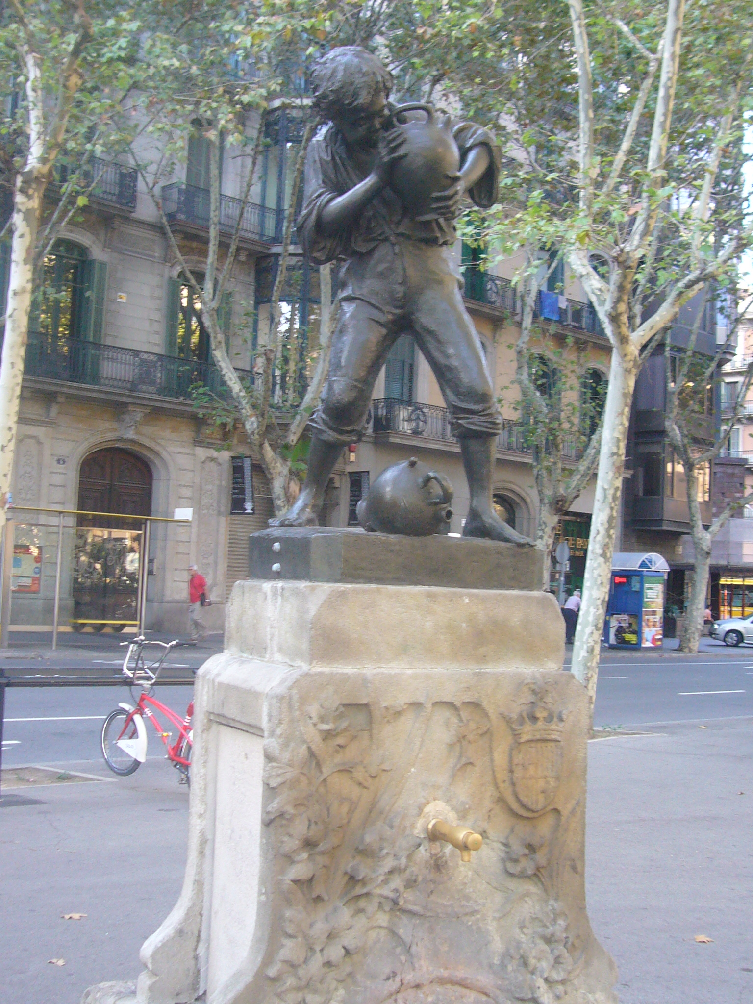 Font del Noi dels cantirs. Plaça Urquinaona, Barcelona. Josep Campeny i Santamaria (Igualada, 1858 - Barcelona, 1922)